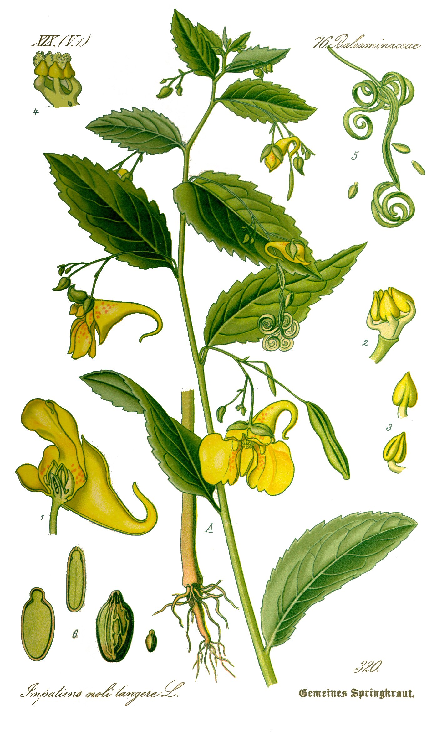 Name Impatiens noli-tangere Family Balsaminaceae